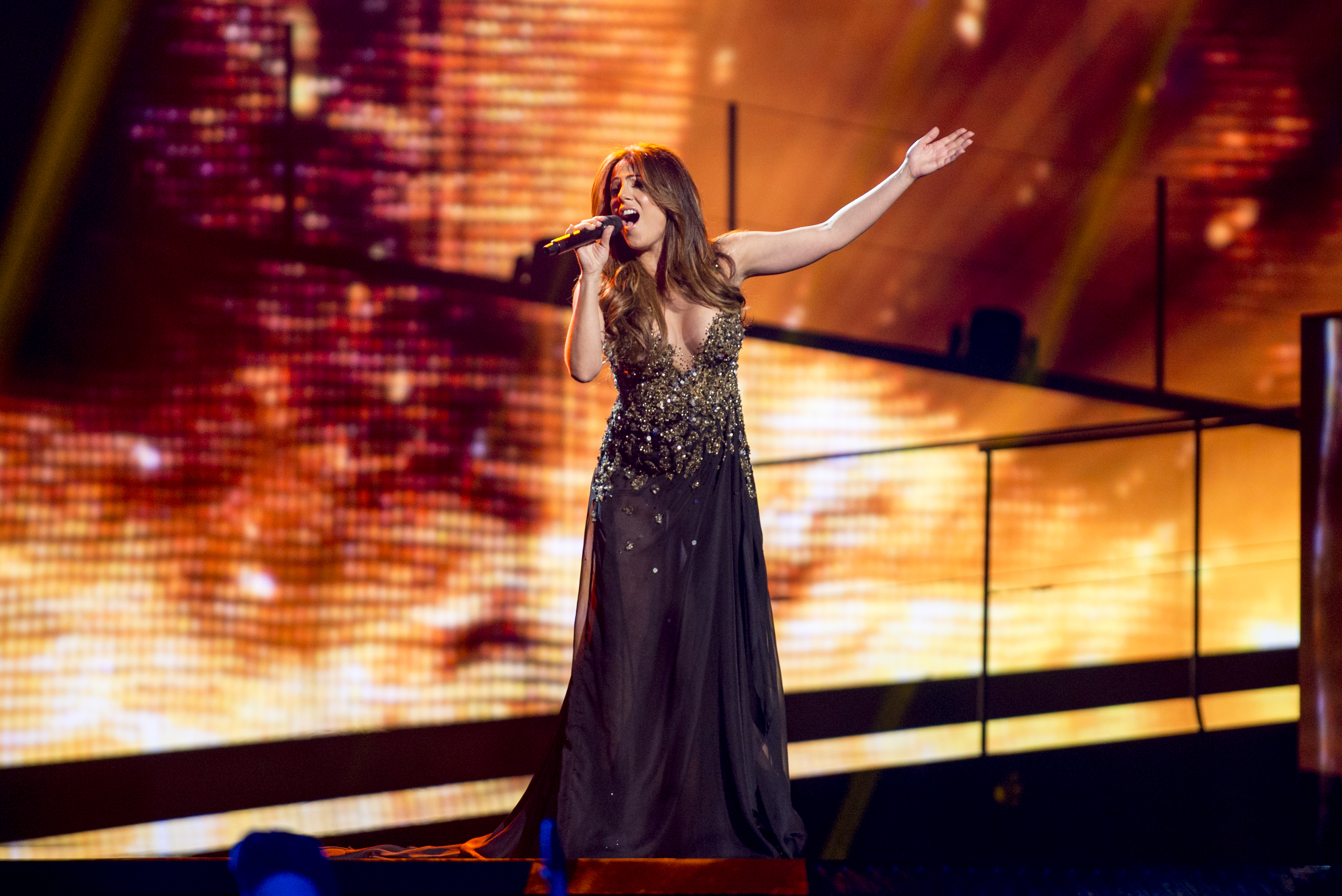 Ira Losco representing Malta with the song "Walk on Water" during a rehearsal before the first semi final of the Eurovision Song Contest 2016 in Stockholm. (Help translate this text)